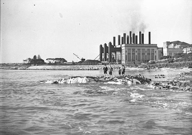 The source of this image is the State Library of NSW, Frame no. : Home and Away - 408.